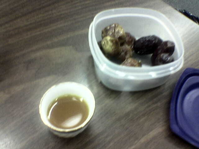 This is an admittedly bad picture of Arabic coffee that I took in an English for International Students class that I observed. Please feel free to replace it with a better one. My name is Ken Myers.